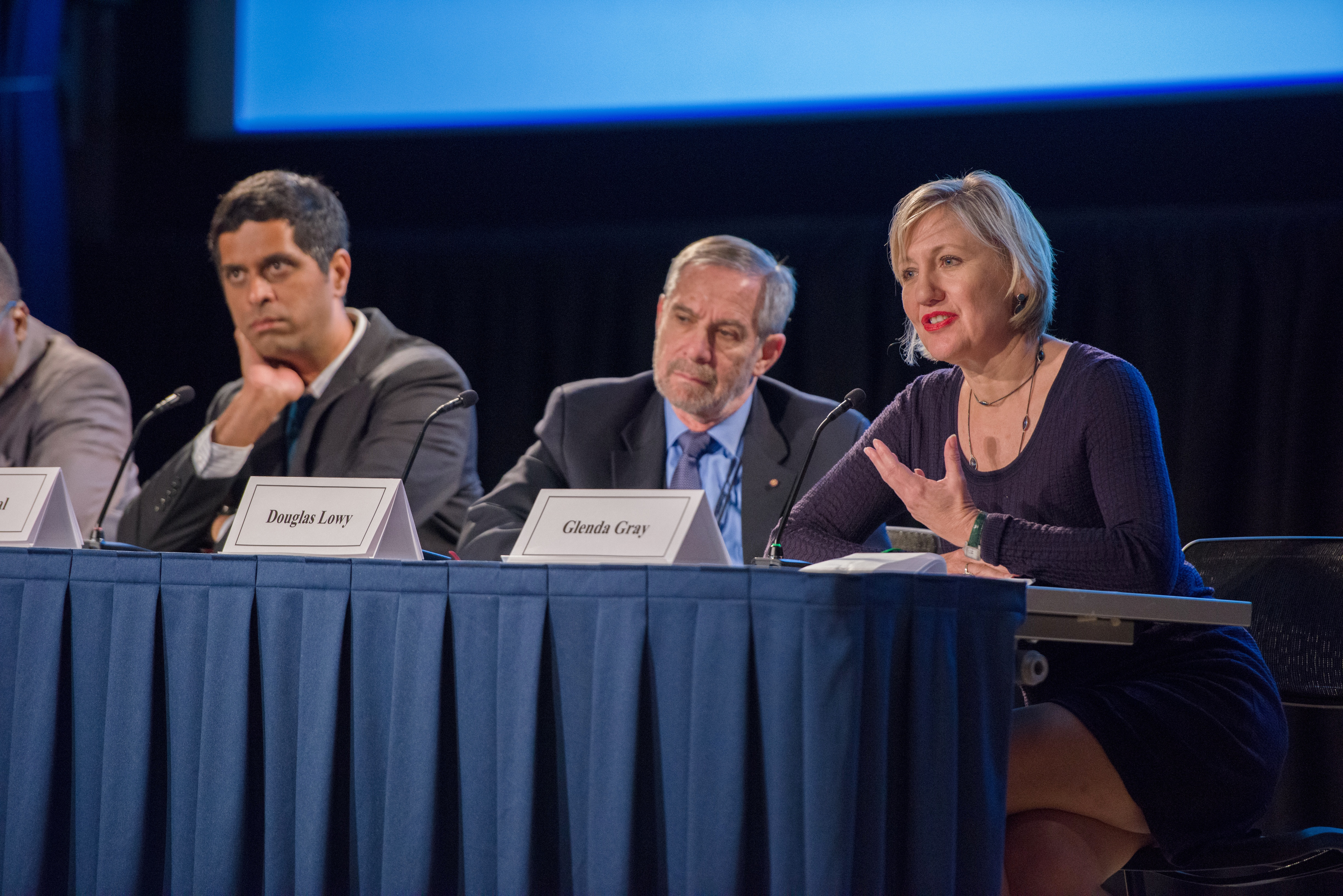 Fogarty held its 50th anniversary symposium, "What are the new frontiers in global health research?" on May 1, 2018, at NIH in Bethesda, Maryland. The growing global threat of chronic diseases was examined by, from left, former Fogarty fellow Dr. Satish Gopal, NCI Deputy Director Dr. Douglas R. Lowy and President of the South African Medical Research Council Dr. Glenda Gray. Symposium agenda and recorded webcast: Credit: Andrew Propp for Fogarty/NIH